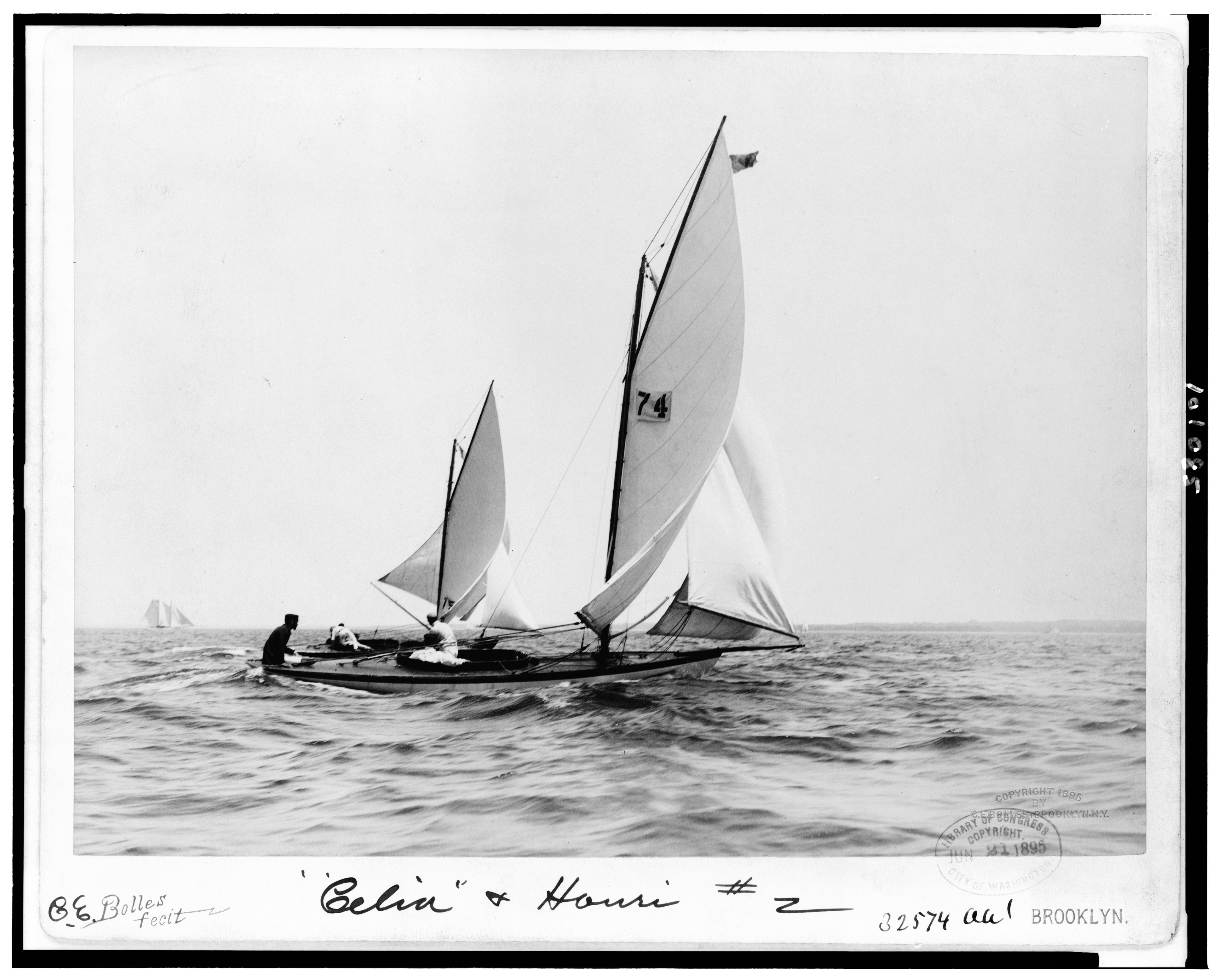 Title: "Celia" and Houri / Bolles fecit, Brooklyn. Huguenot Yacht Club held its first annual regatta, open to boats from all clubs. (HUGUENOT YACHTS RACE.; First Open Regatta of the Club Sailed Off New-Rochelle). Abstract/medium: 1 photographic print.